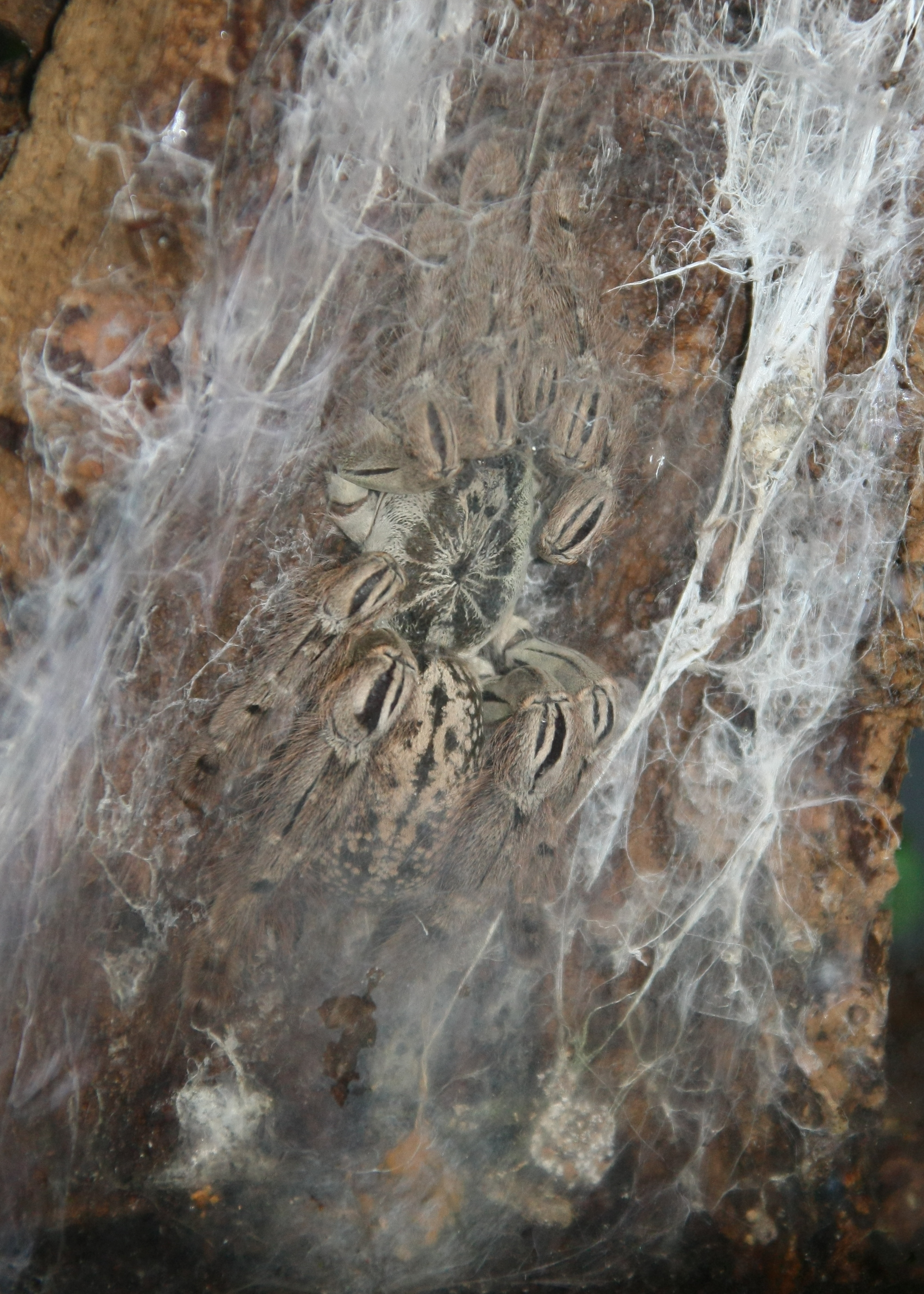 Togo Starburst Tarantula in web waiting for prey - taken at the Cincinnati Zoo.